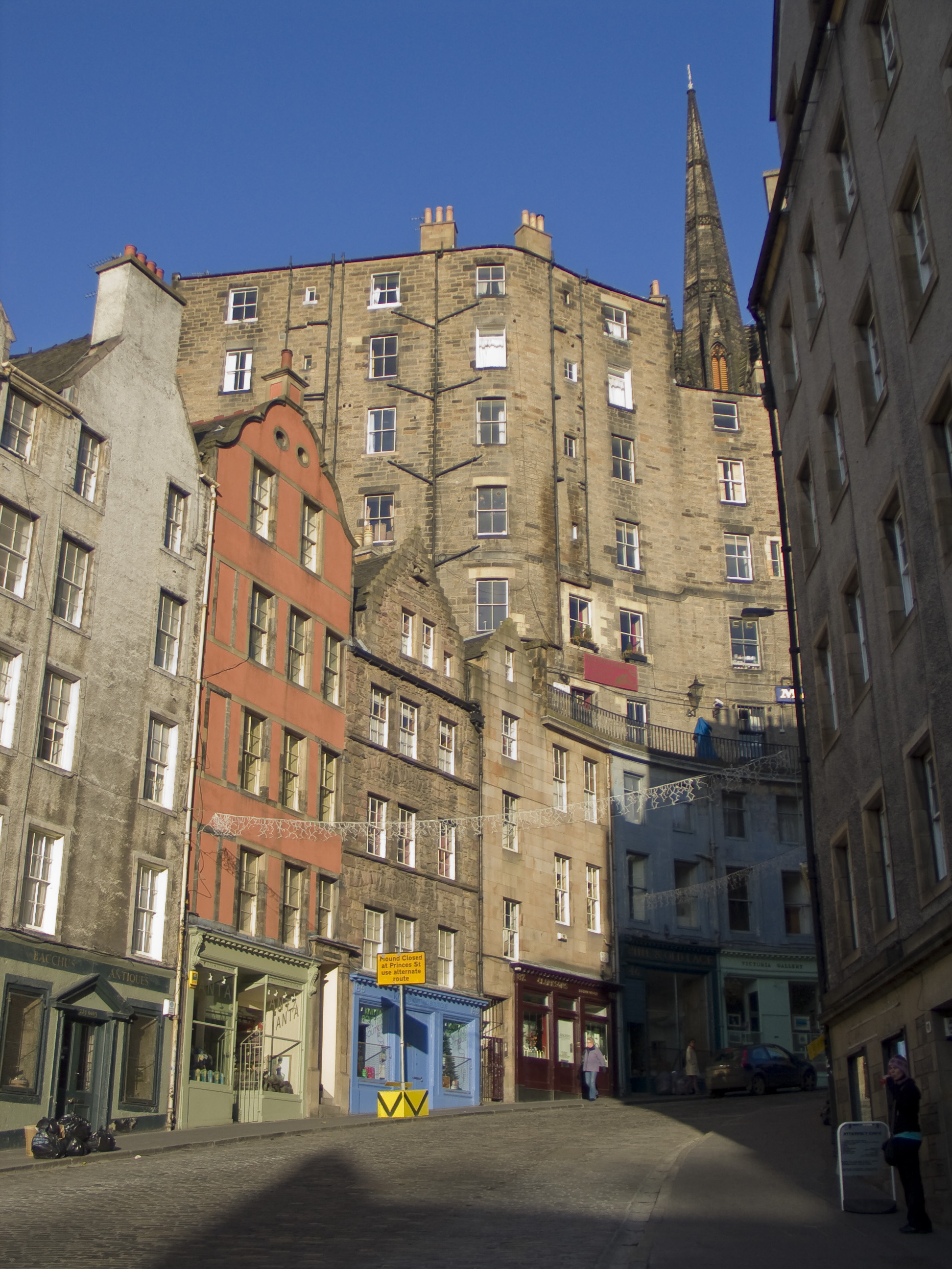 Victoria Street, Edinburgh